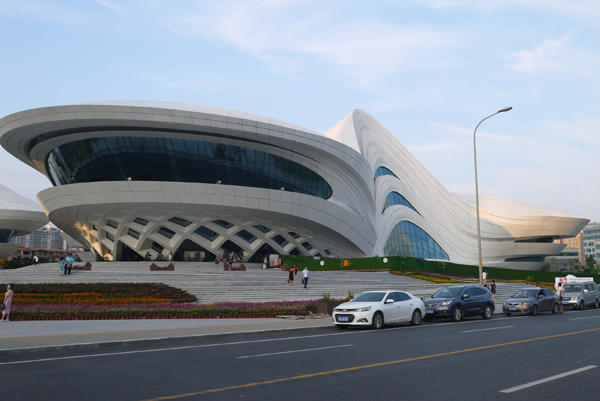 Changsha Meixi Lake International Culture and Art Center